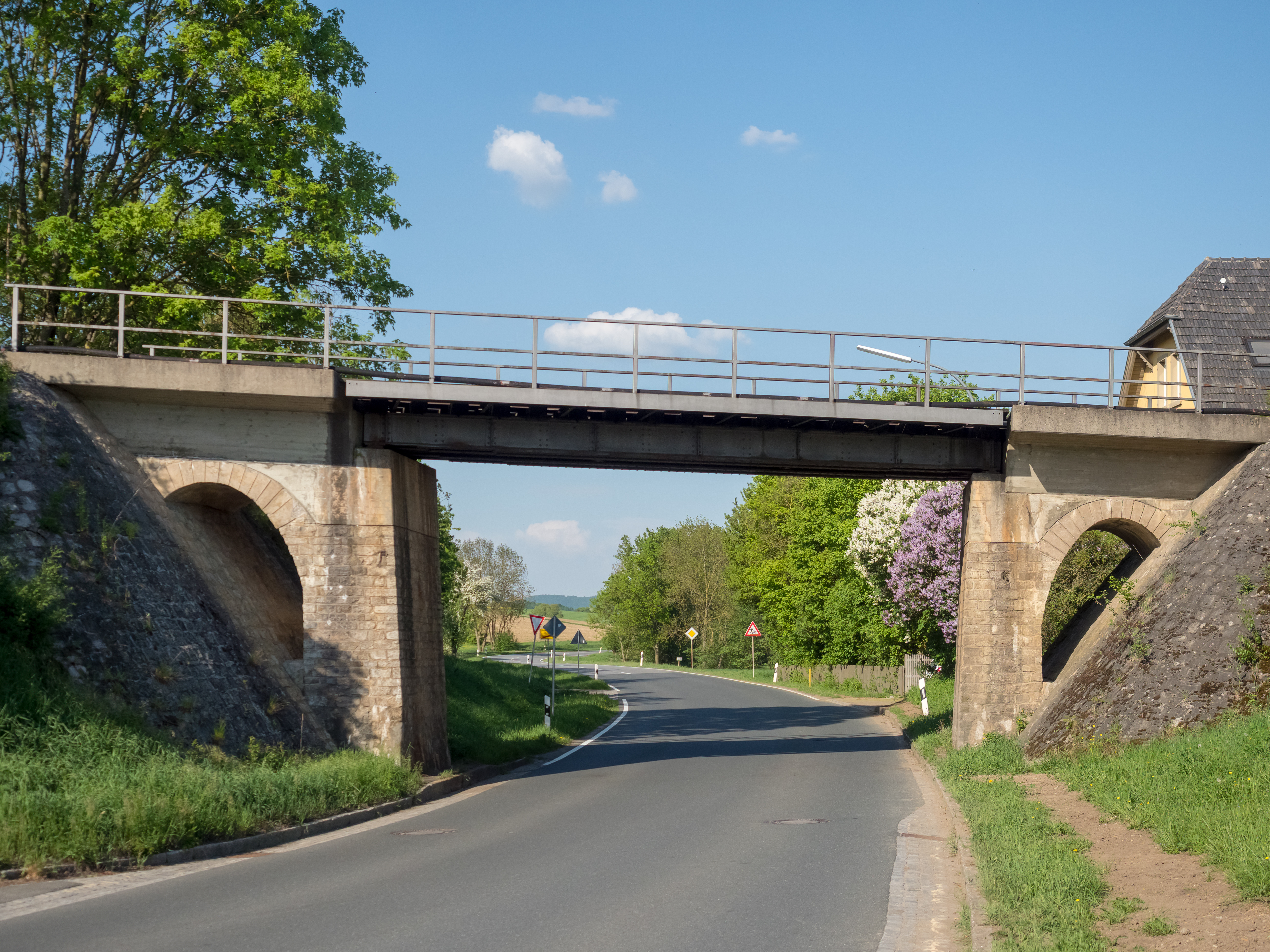 Bridge of the railway line Schweinfurt - Kitzingen over the B22 in Stadelschwarzach